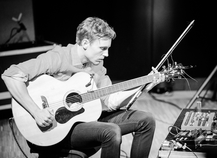 Stephan Meidell with Erlend Apneseth Trio in Sølvsalen. The concert was part of Kongsberg Jazzfestival and took place on 05. July 2018 in Kongsberg. Lineup: Erlend Apneseth (Hardanger fiddle) Stephan Meidell (guitar) Øyvind Hegg-Lunde (drums)